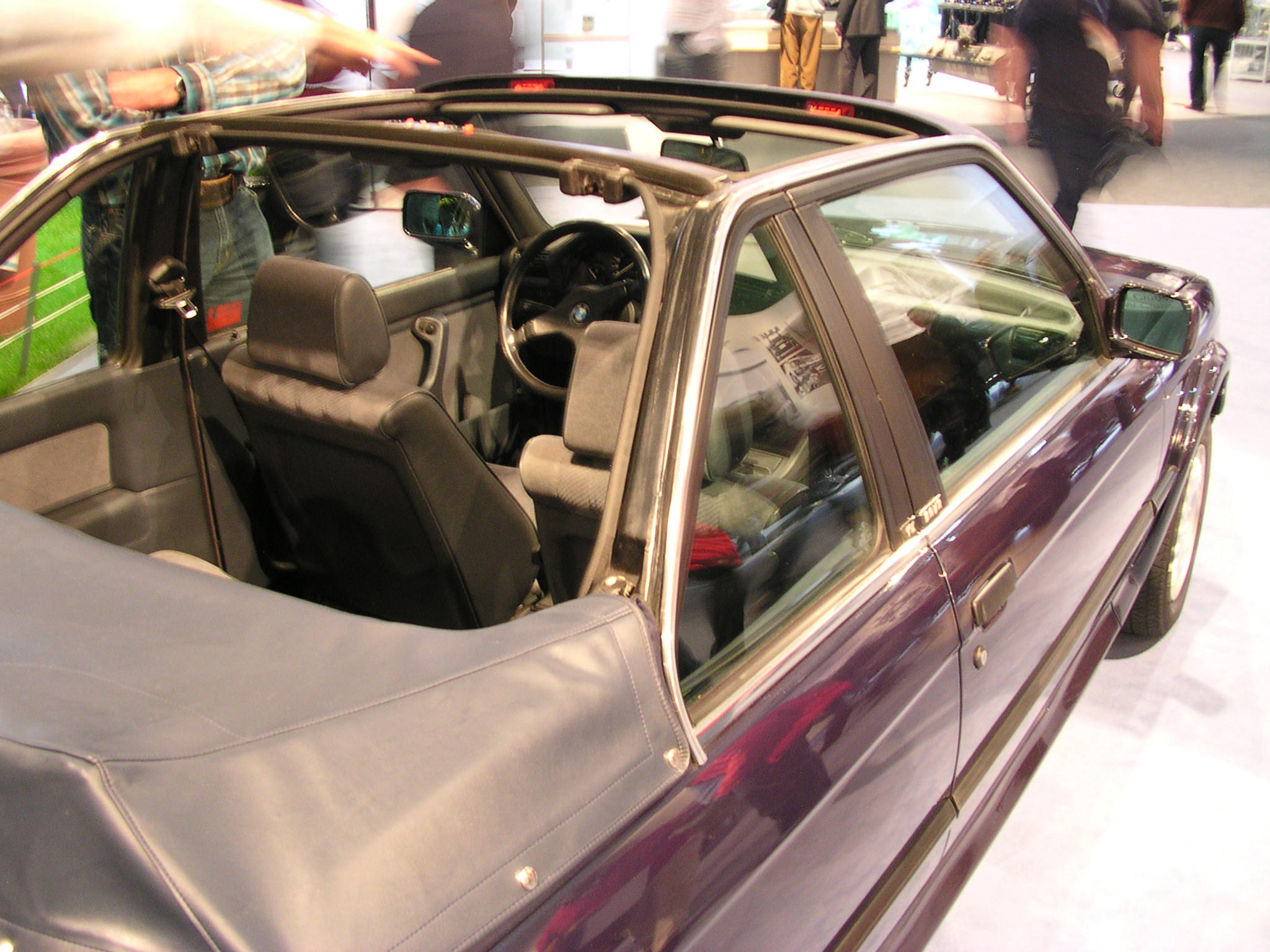 Essen Techno-Classica 2007, BMW 325 TC 2